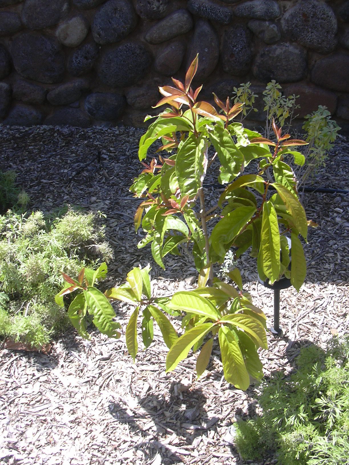 Syzygium malaccense (habit). Location: Maui, Maui Nui Botanical Garden